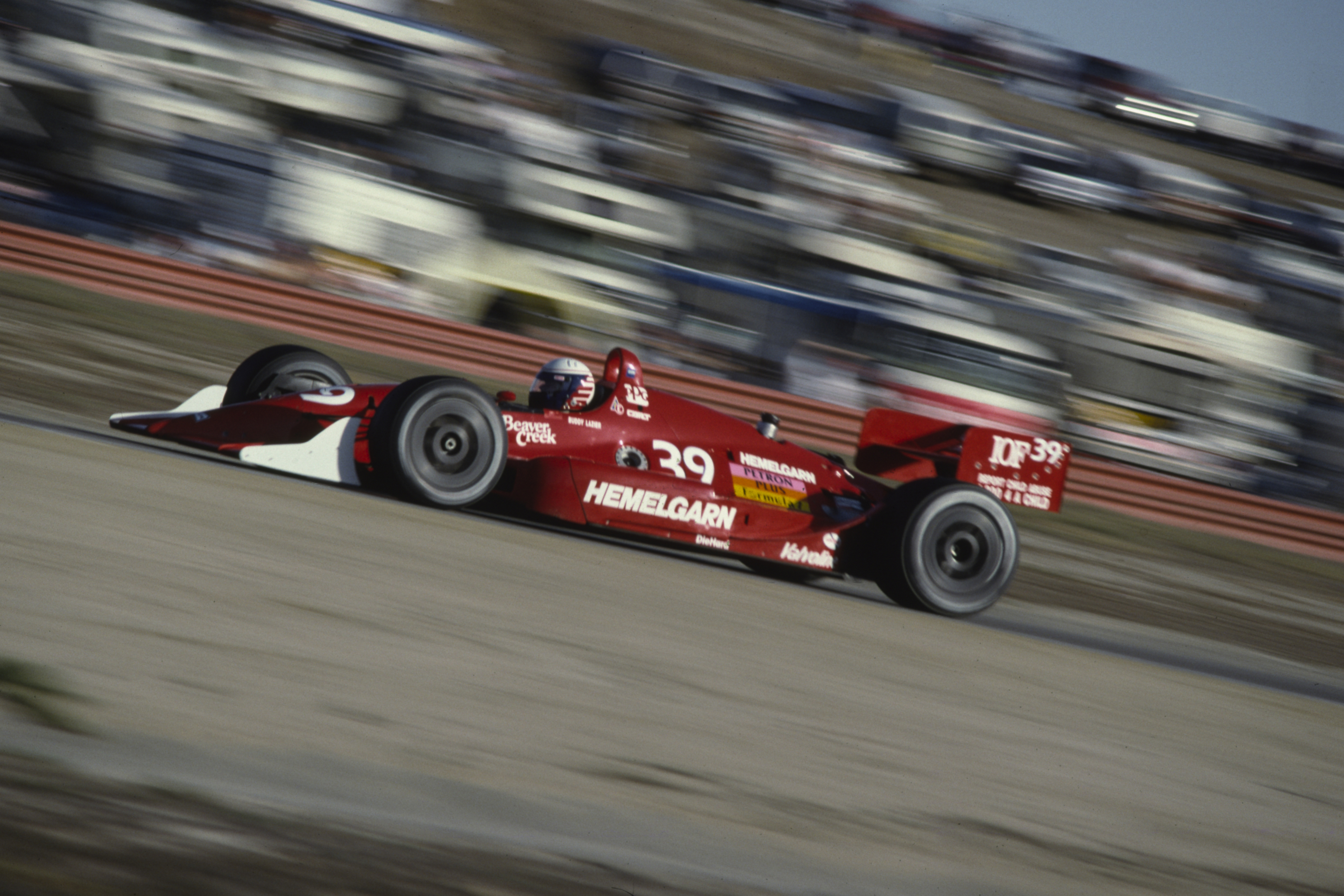 Buddy Lazier 1991 CART Race - Laguna Seca - October 1991